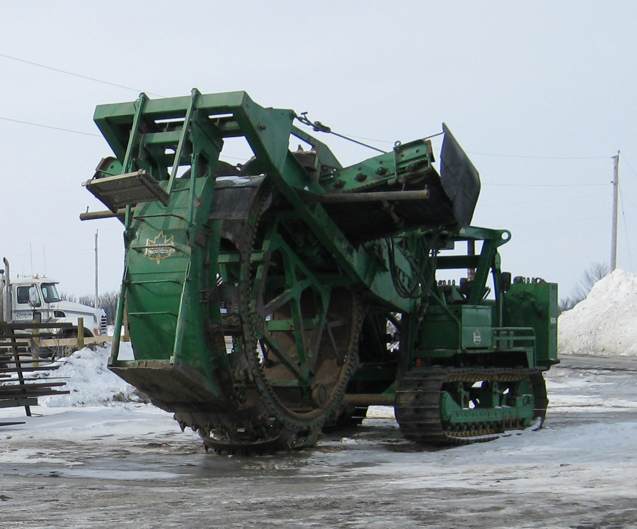 Barber Green Ditcher